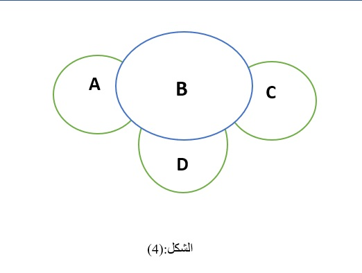 يصف مشكلة العقدة المخفية